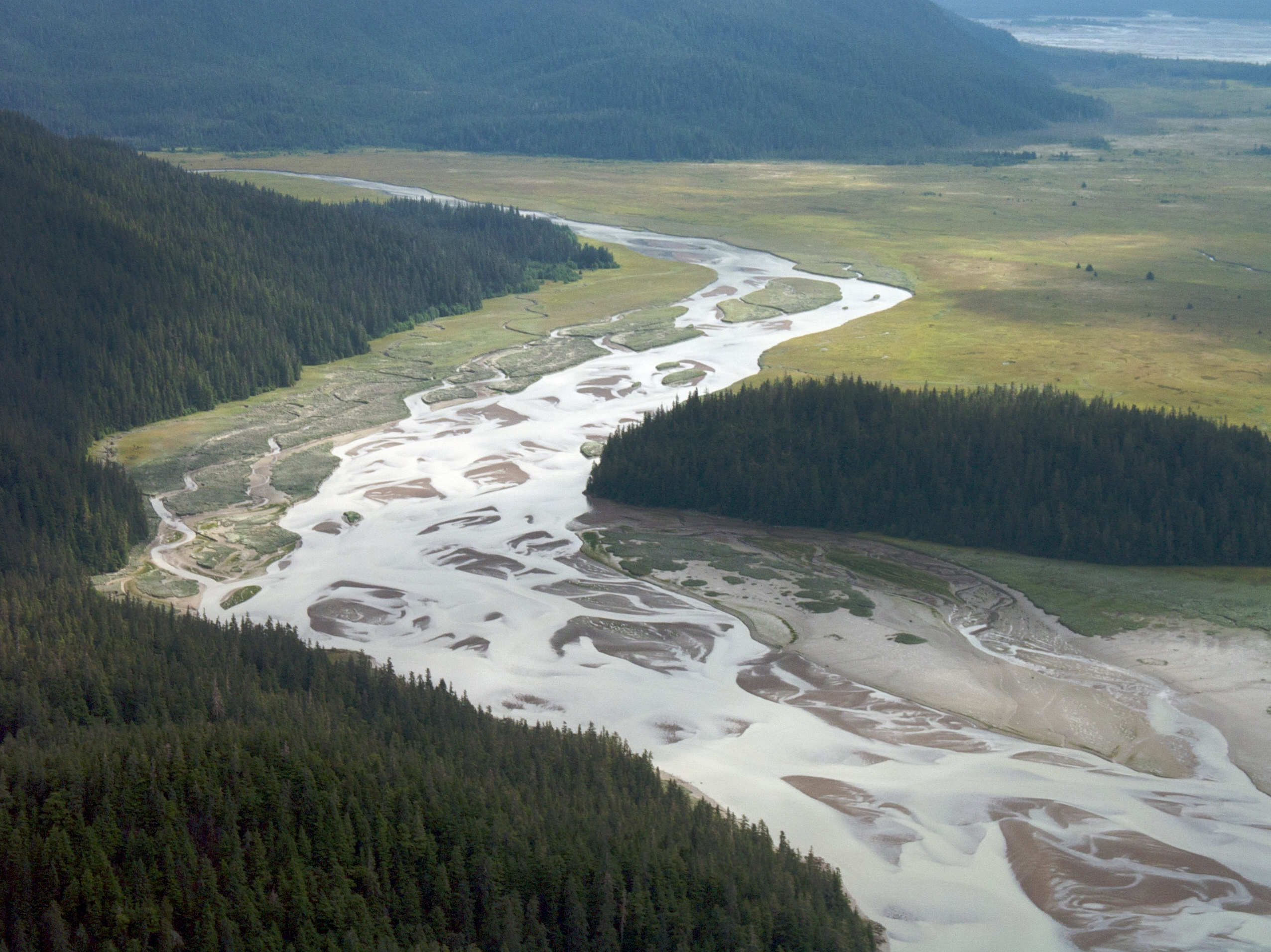 Little Dry Island